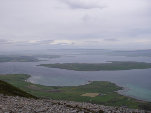 Burra Sound from Ward Hill, Hoy Graemsay, Stromness and Bay of Ireland in background.